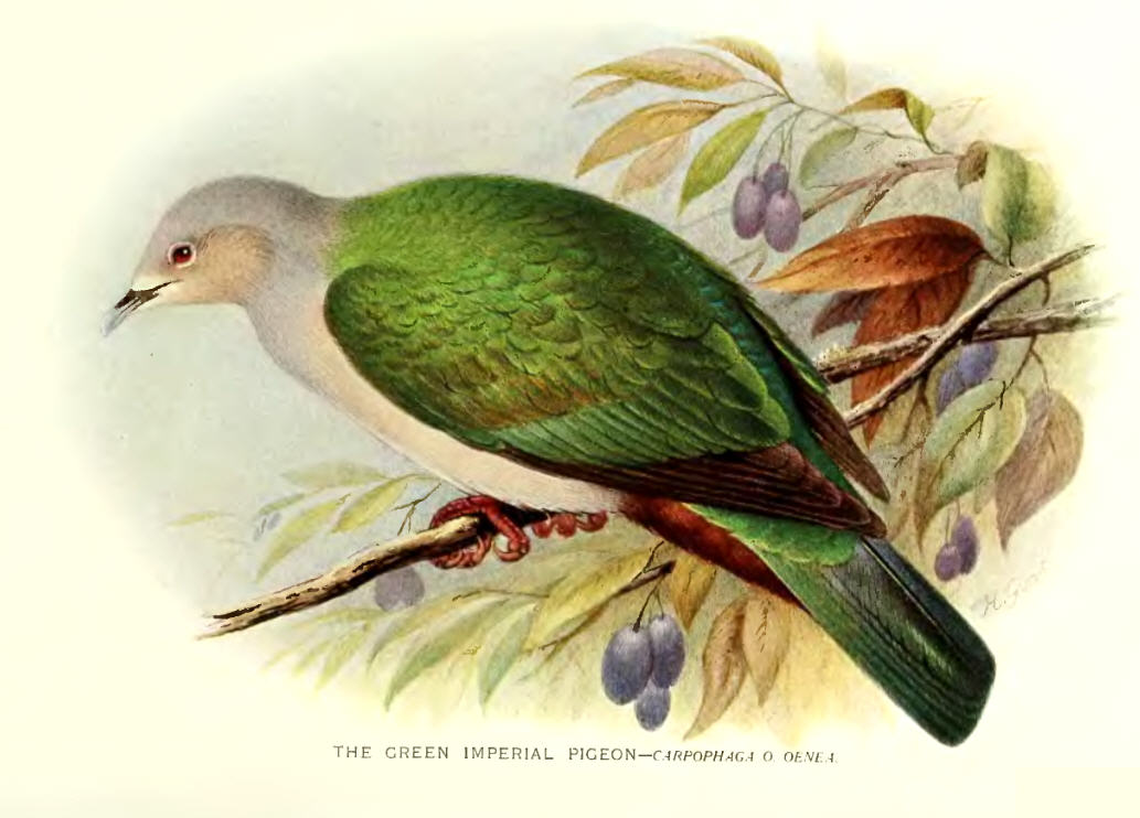 Green Imperial Pigeon, Ducula aenia